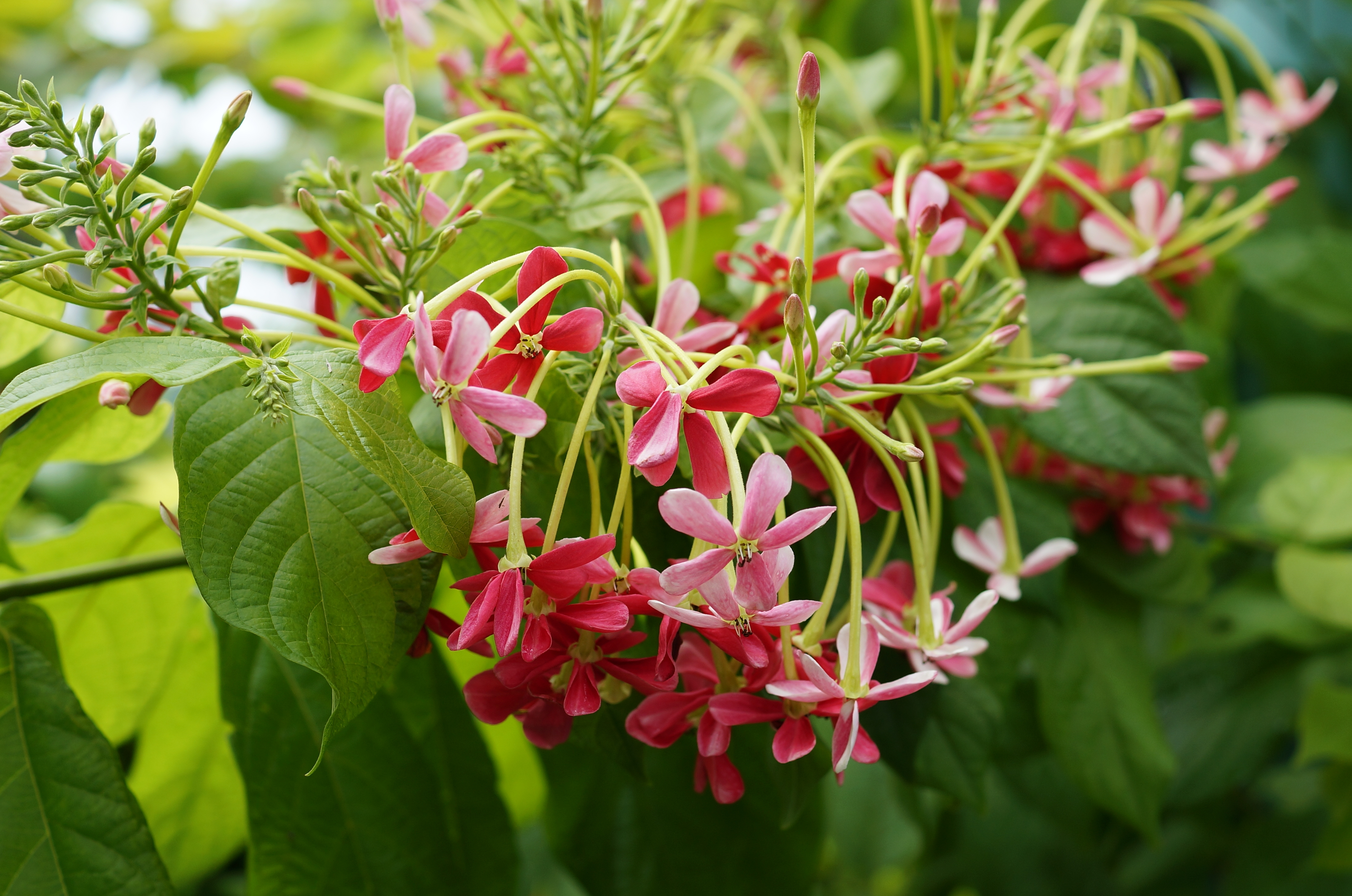 Sử quân tử, trang leo